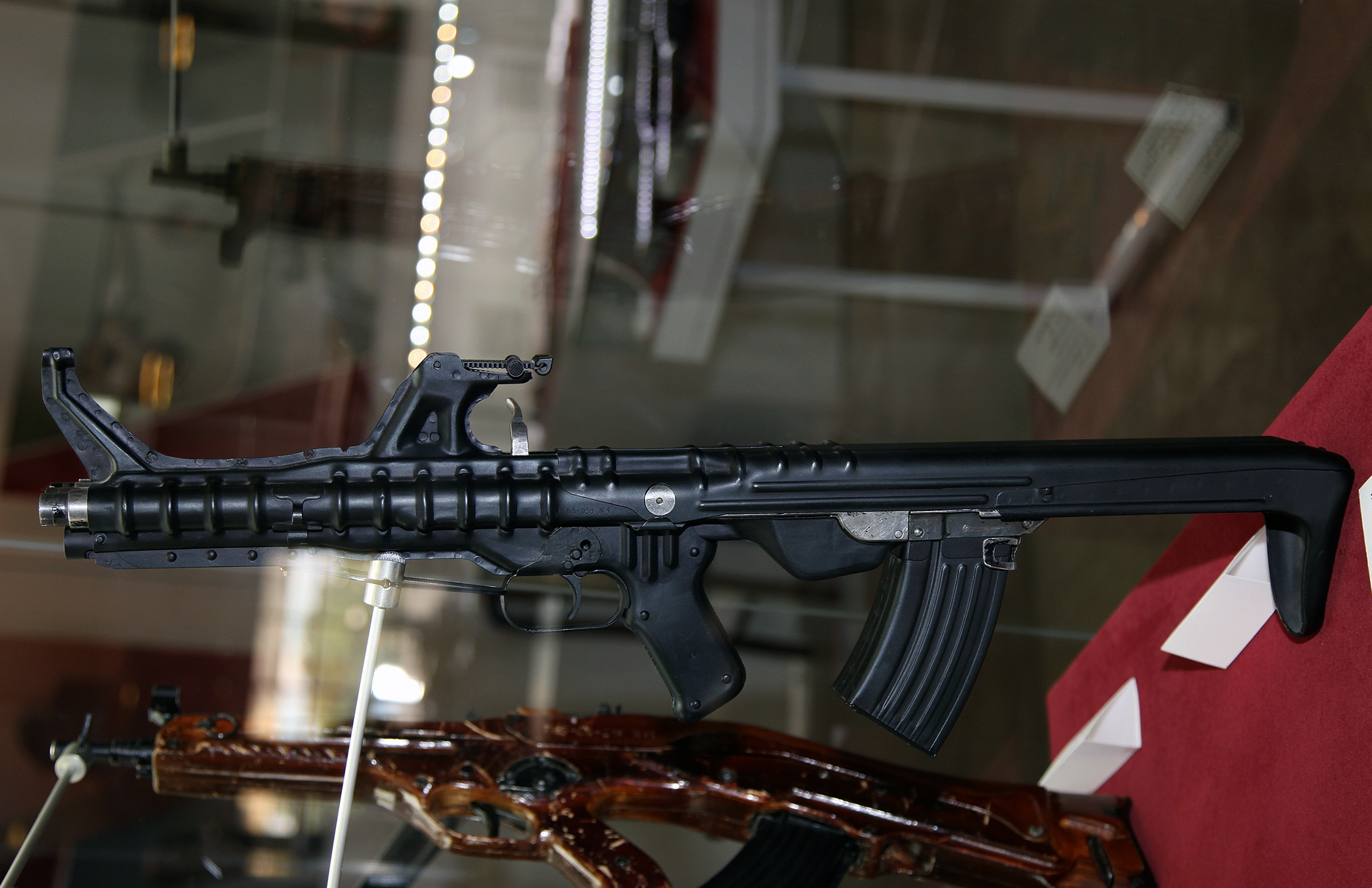 Triple barrel TKB-059 Korobov assault rifle at Tula State Arms Museum.